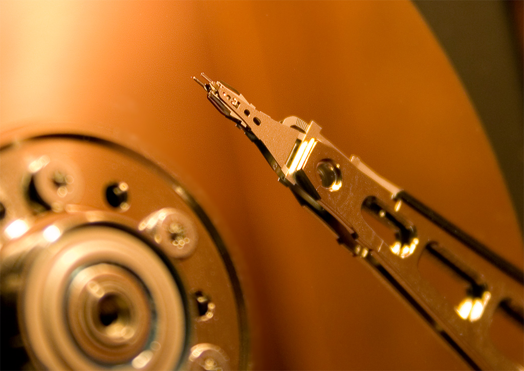 This is a side view of the read head of an IBM hard disk, circa 2002.